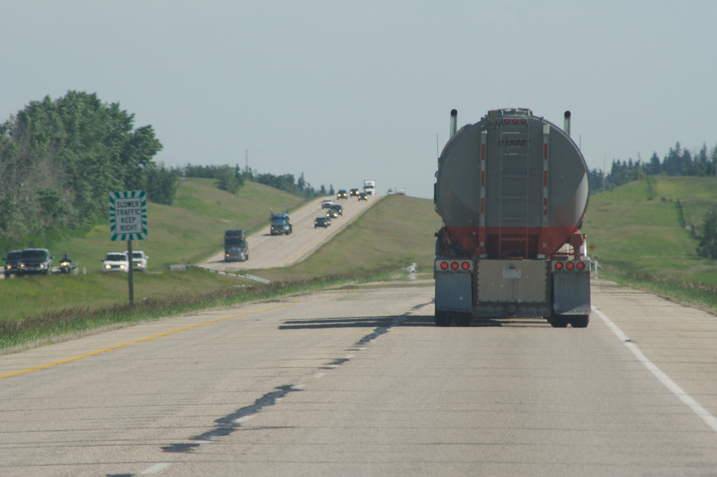 Highway 2 is jam-packed, constantly, in both directions. I wonder what the carbon footprint of this highway is...